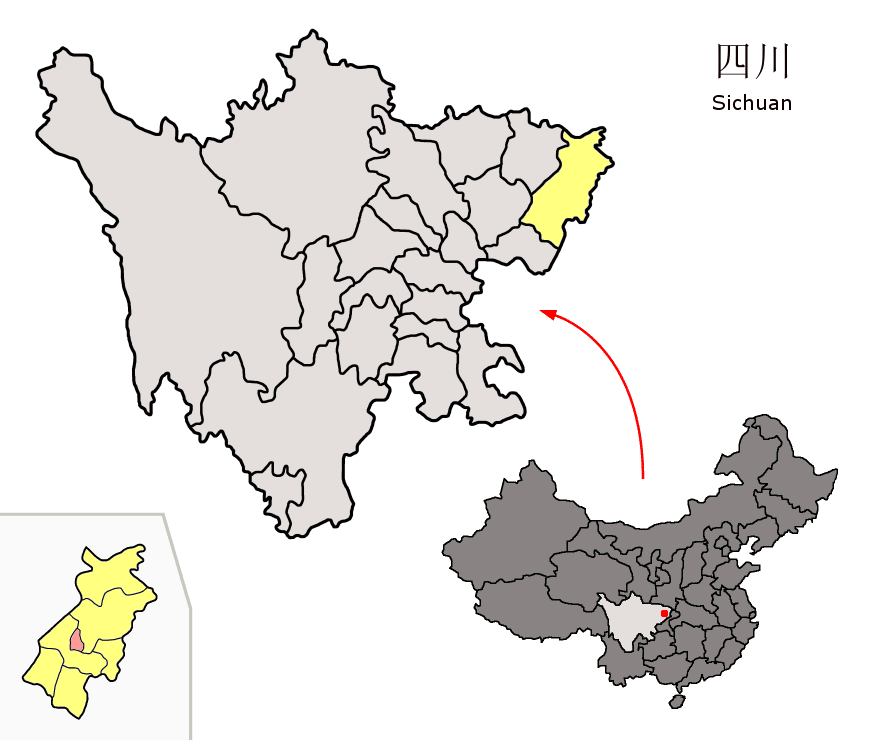 Location of Tonghuan District (pink) and Dazhou Prefecture (yellow) within Sichuan province of China Map drawn in october 2007 using various sources, mainly : Sichuan province administrative regions GIS data: 1:1M, County level, 1990 Sichuan Counties map from